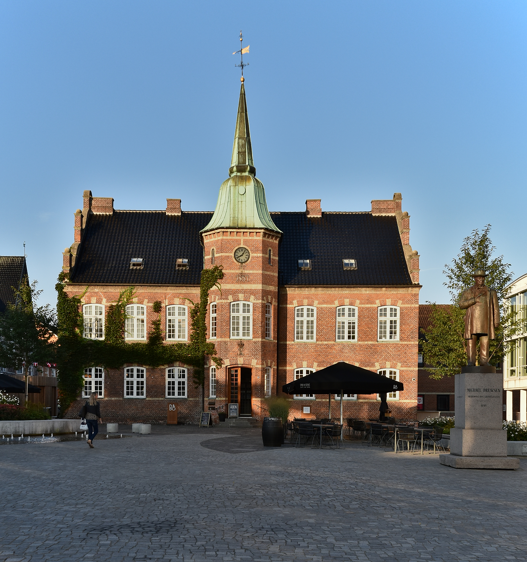 Former Silkeborg Town Hall (from 1857), Denmark, view towards west.